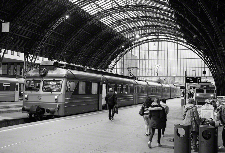 Passengers are waiting at Bergen station for NSB Regiontog train to Oslo in track 3.